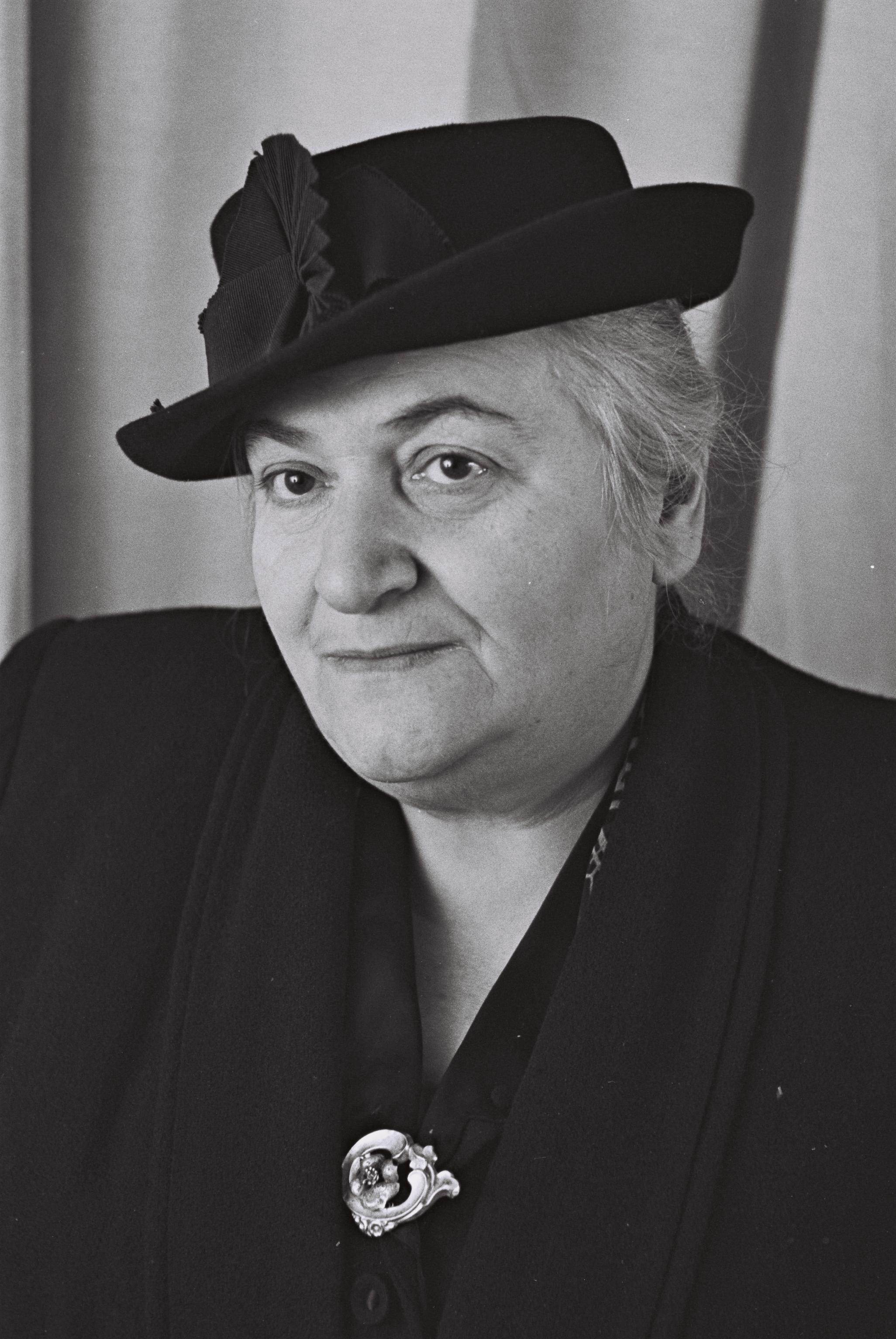 Portrait of Shoshana Parsitz.